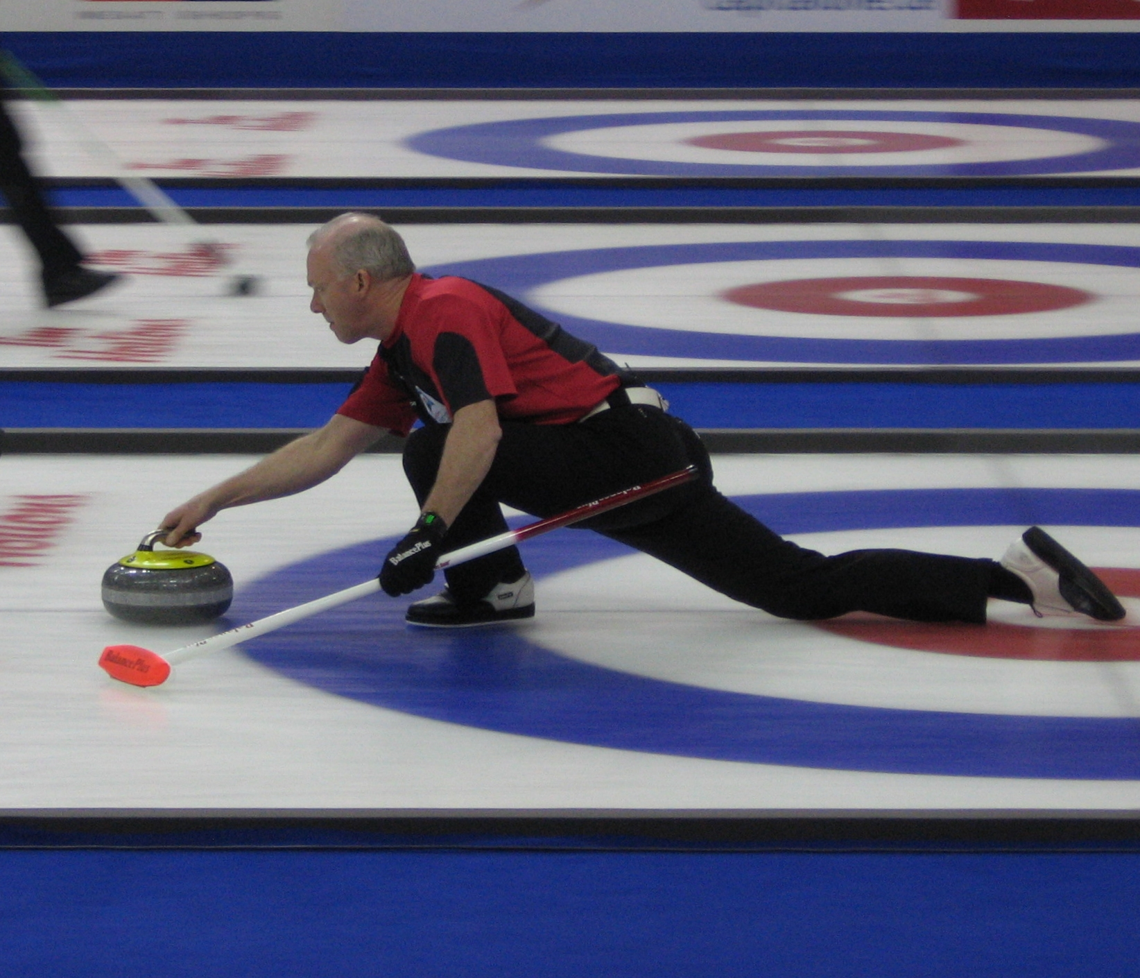 Skip Glenn Howard of the Ontario Team, 2010 Tim Hortons Brier, Halifax Nova Scotia